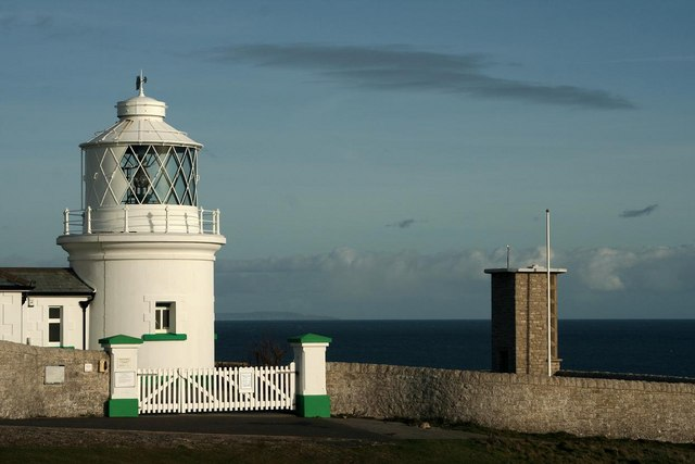 Anvil Point Lighthouse